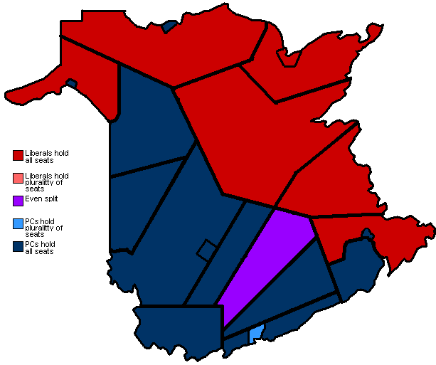 Results by district of New Brunswick general election. Many of the districts returned more than one member, the key is: dark red - all Liberals light red - Liberal plurality purple - even split of Liberals and Progressive Conservatives (PCs) light blue - PC plurality dark blue - all PCs